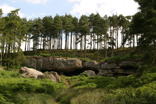 St Cuthbert's Cave. Reputed to be one of the resting places of St Cuthbert's body after the monks left Lindisfarne with it following the sacking of the Priory by the Vikings. He was finally buried in what is now Durham Cathedral.